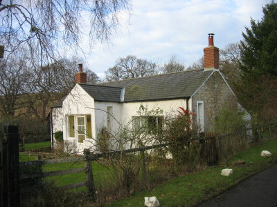 Thorneyburn Station. This was an isolated station on a gated lane and for seven months was the terminus for the border Counties Railway until the whole line was completed to Riccarton Junction. Parcels and goods were never handled this station. The gatekeepers cottage doubled up as the station house. The station was opened on 1st February 1861 and closed on 15th October 1956. The cottage is said to be a holiday cottage.